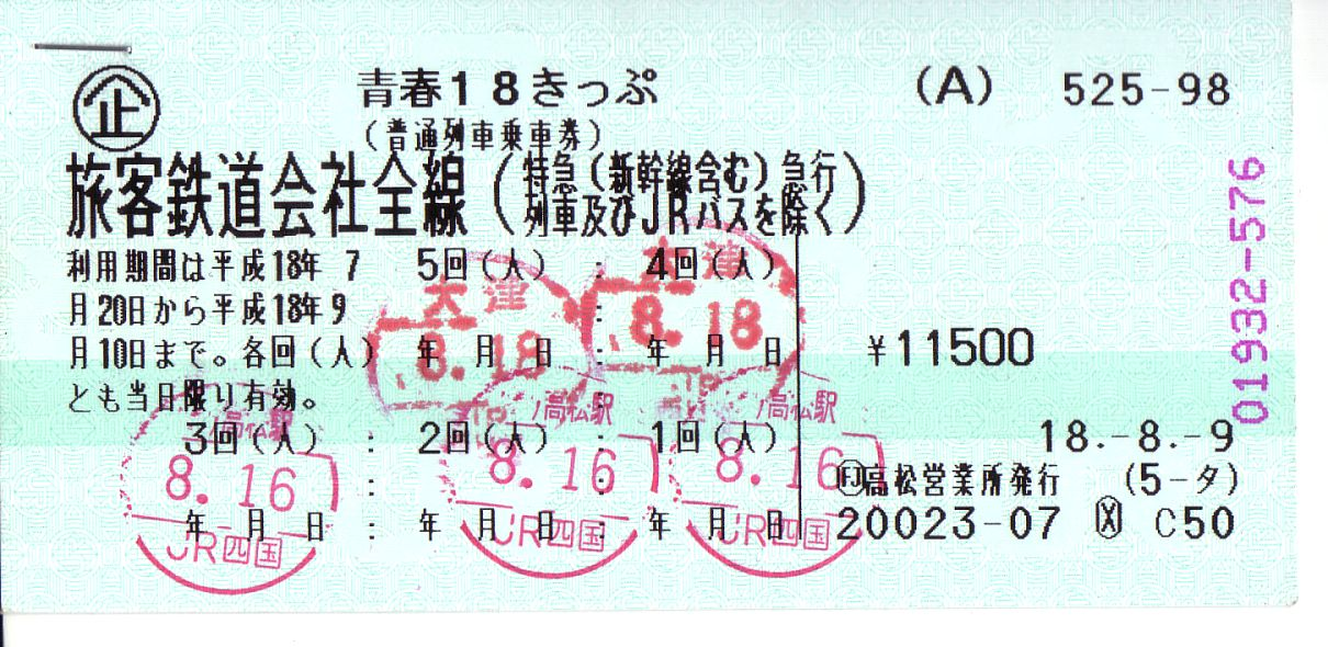 Japanese Train Ticket (Youth-18 Ticket)